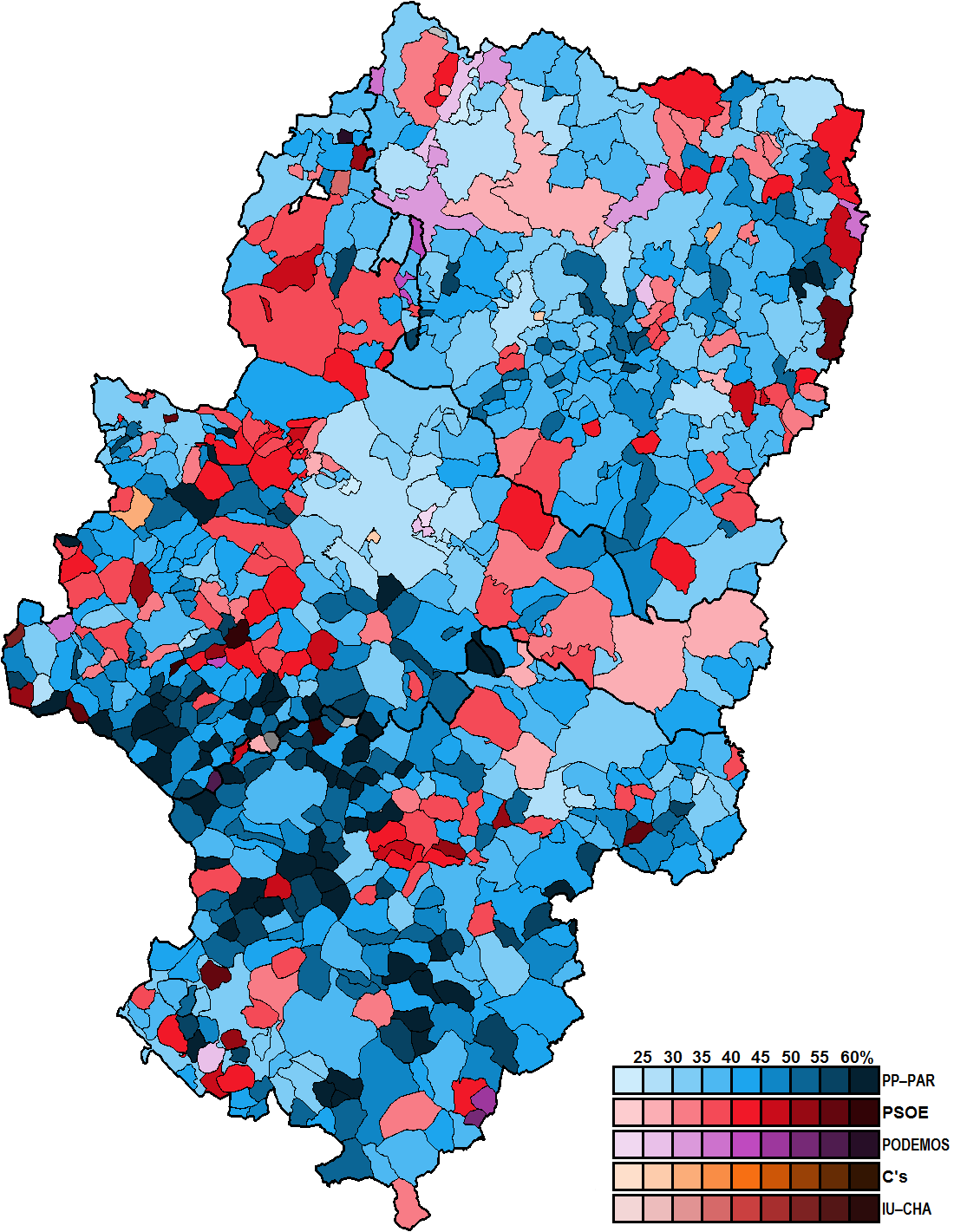 Most-voted party in Aragon municipalities, showing vote share obtained, in the Spanish general election, 2015.